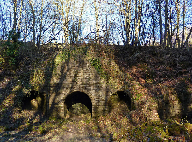 Lime kiln in Muiravonside Country Park A lime kiln in Muiravonside Country Park, now owned and managed by Falkirk Council Community Service but originally the estate of the Stirling family of Falkirk. The kiln was built in the mid-19th century, when the estate was being developed, to produce lime as a fertiliser.